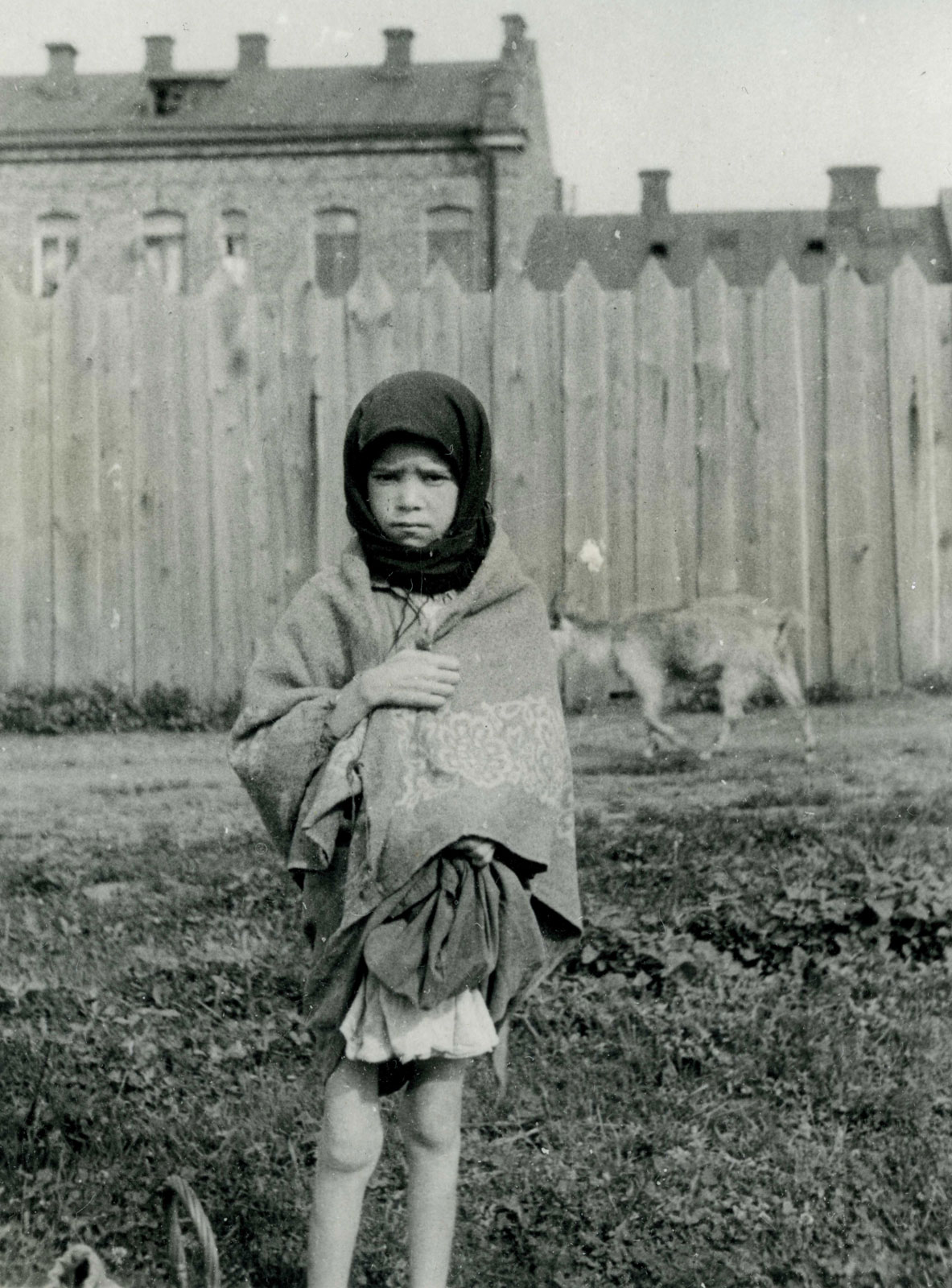 Child with signs of starvation on the streets of Kharkiv, Diocesan Archive of Vienna.